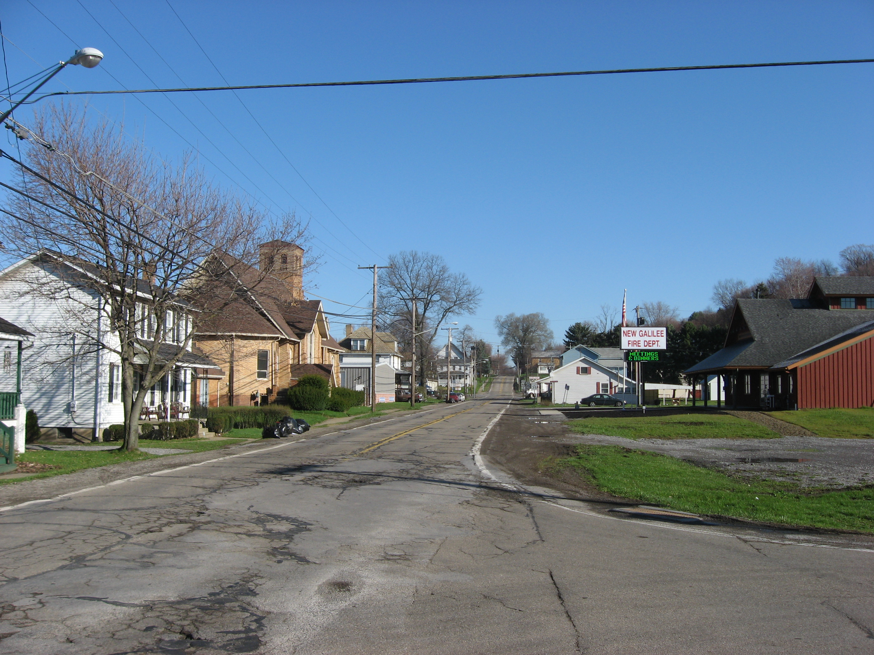 Northward along Centennial Avenue, the main street of New Galilee, Pennsylvania, United States, near the Jackson Street intersection.